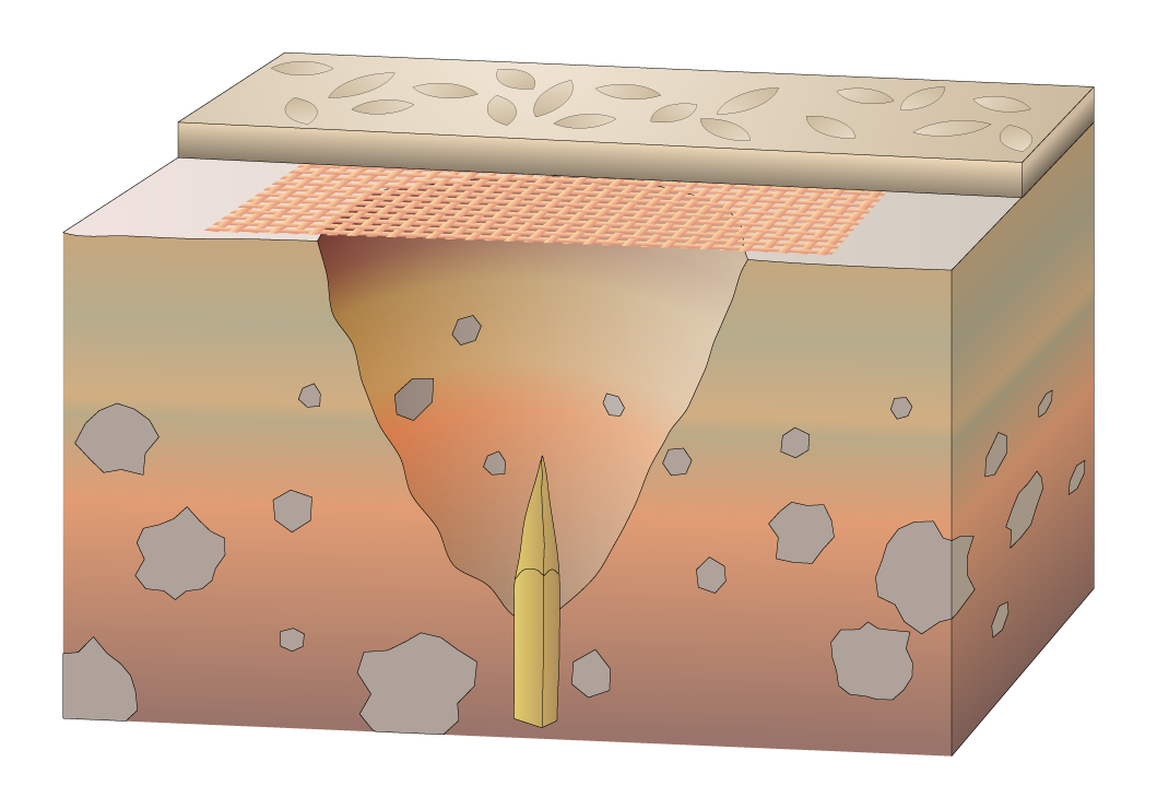 Trou de loup -- a booby trap consisting of a concealed conical pit with a sharpened stake at the bottom